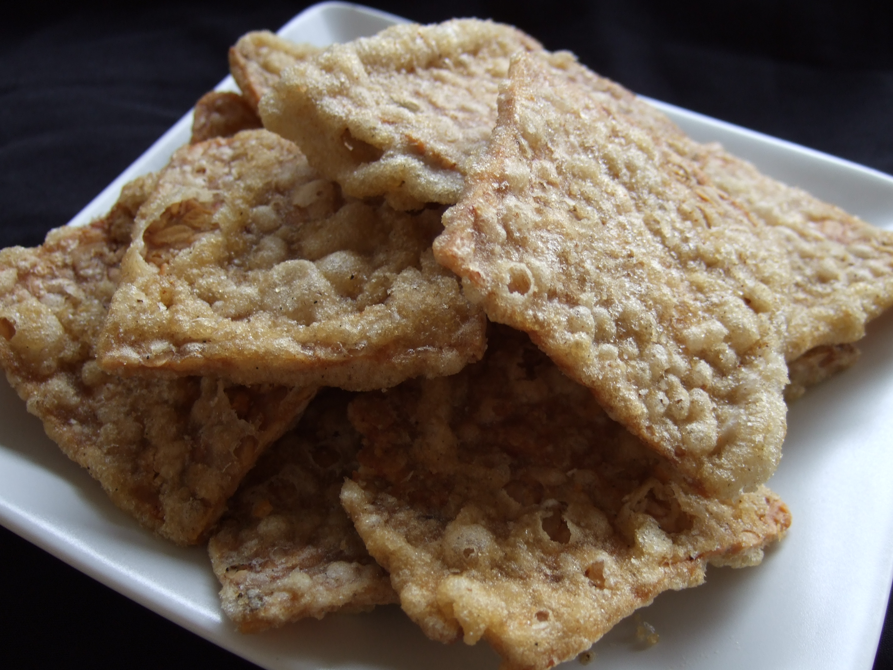 Fried tempeh for snack. Product of Bandung, West Java, Indonesia